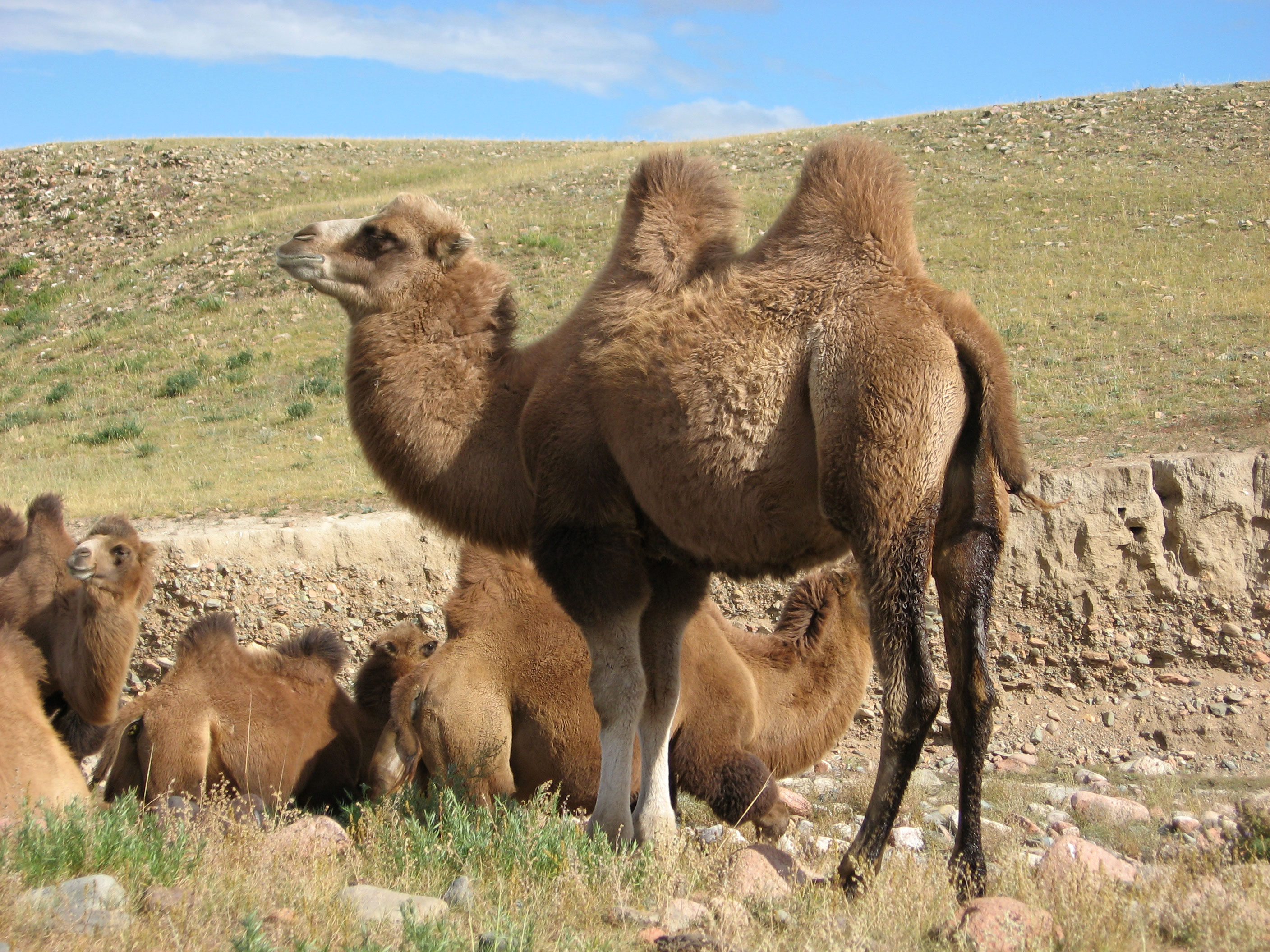 Camels near Bürentogtoh sum center, Hövsgöl, Mongolia.